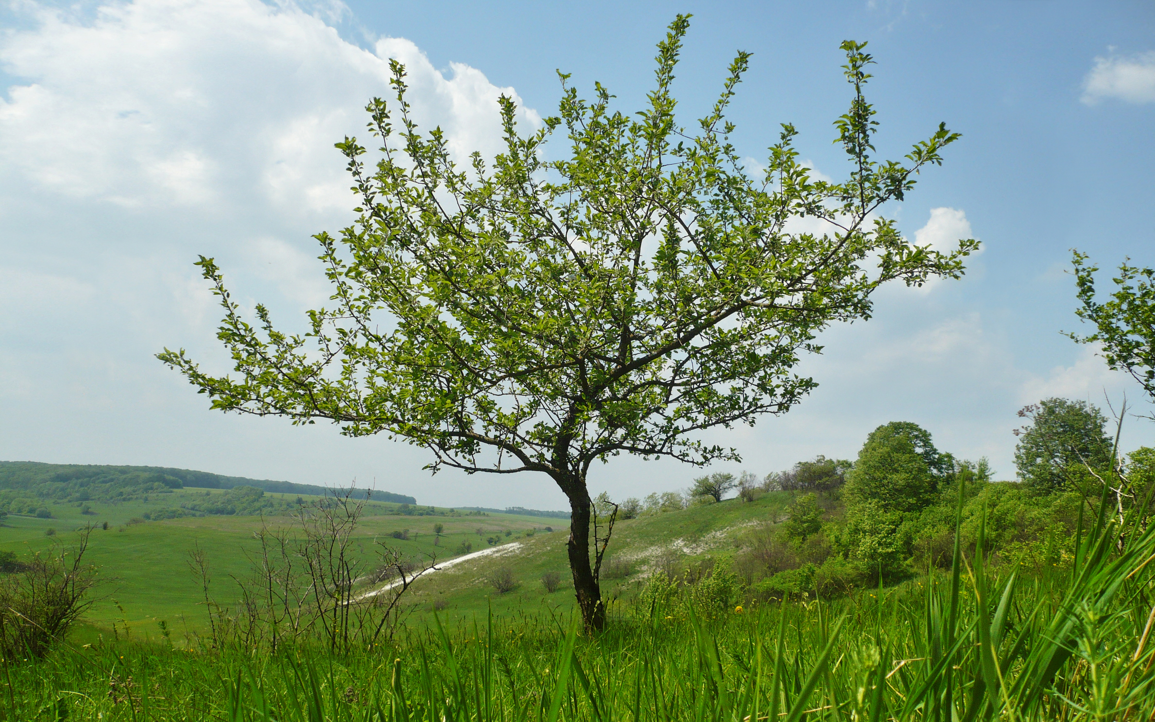 Crabapple tree in Russia (Belgorod Oblast)